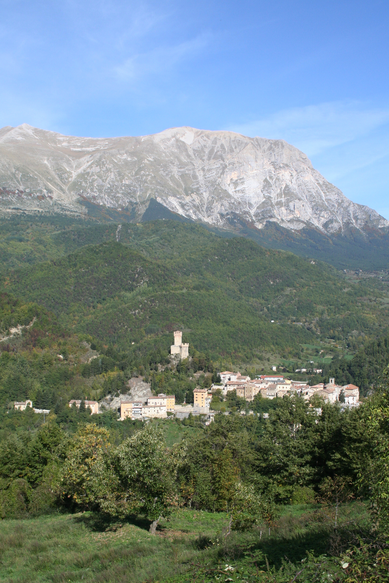 One peak (?) of the mountains Monte Vettore in Italy, seen from Arquata del Tronto in Valle del Tronto.